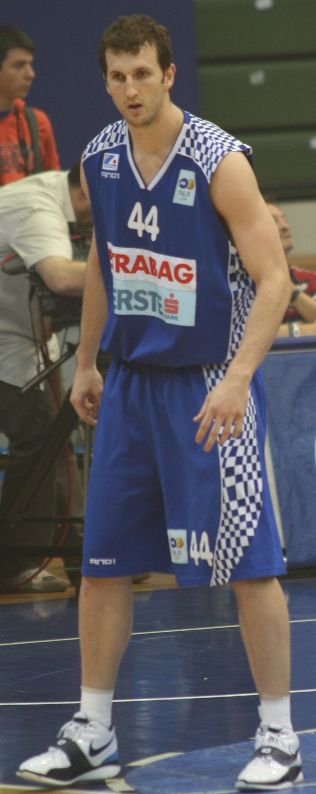 Trent Plaisted, player of Zadar, in third match of Croatian basketball finals season 2009/2010